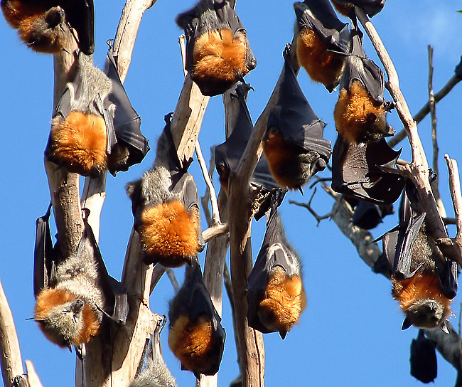 Roosting Grey-headed flying-foxes